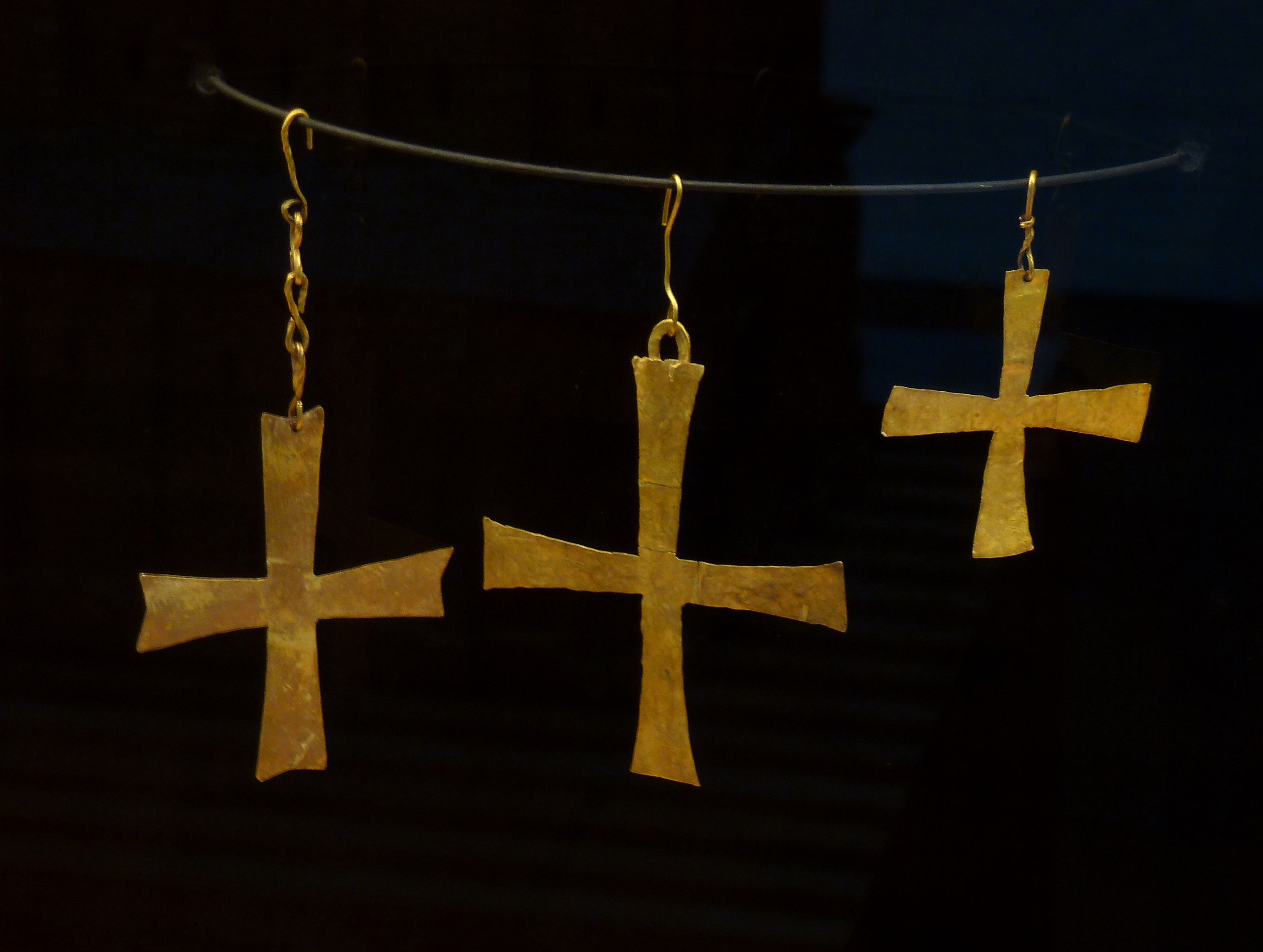 Treasure of Villafáfila, Museum of Zamora, Spain.